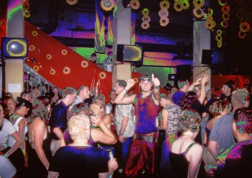 KW – Das Heizkraftwerk techno club in Munich.